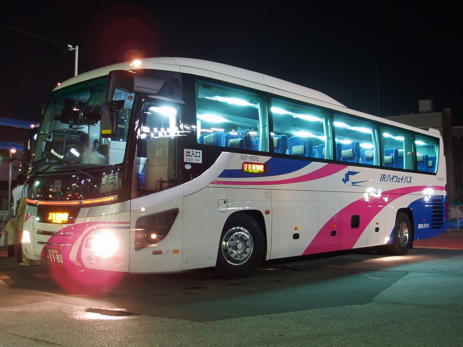 Nishinihon JR Bus "Kochi Express" 647-8976 Hino PKG-RU1FSAA at Kochi Sta.